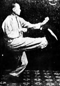 Eagle Claw proponent Chan Tzi Ching demonstrating a technique